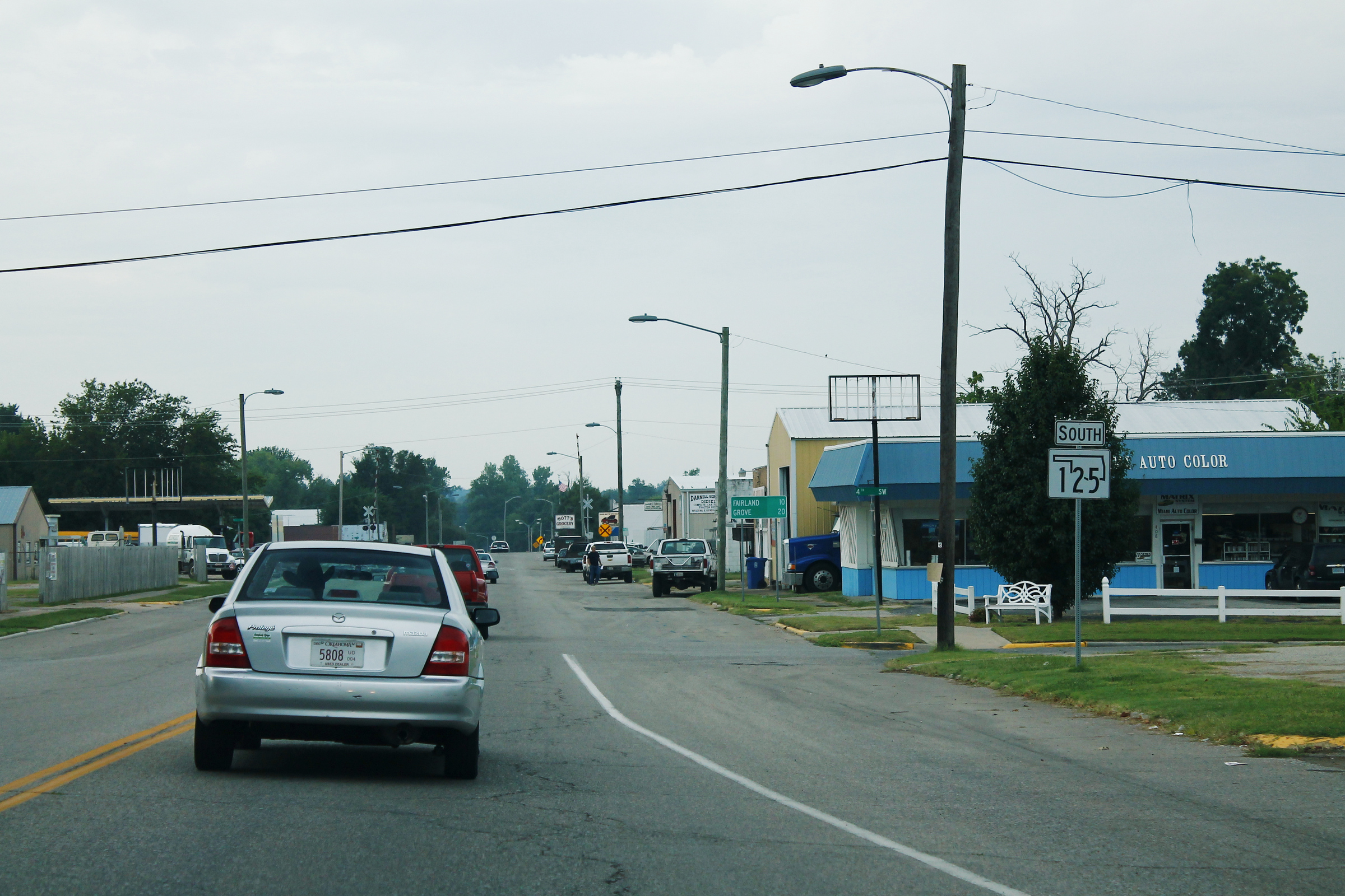 OK 125 South road sign, Miami